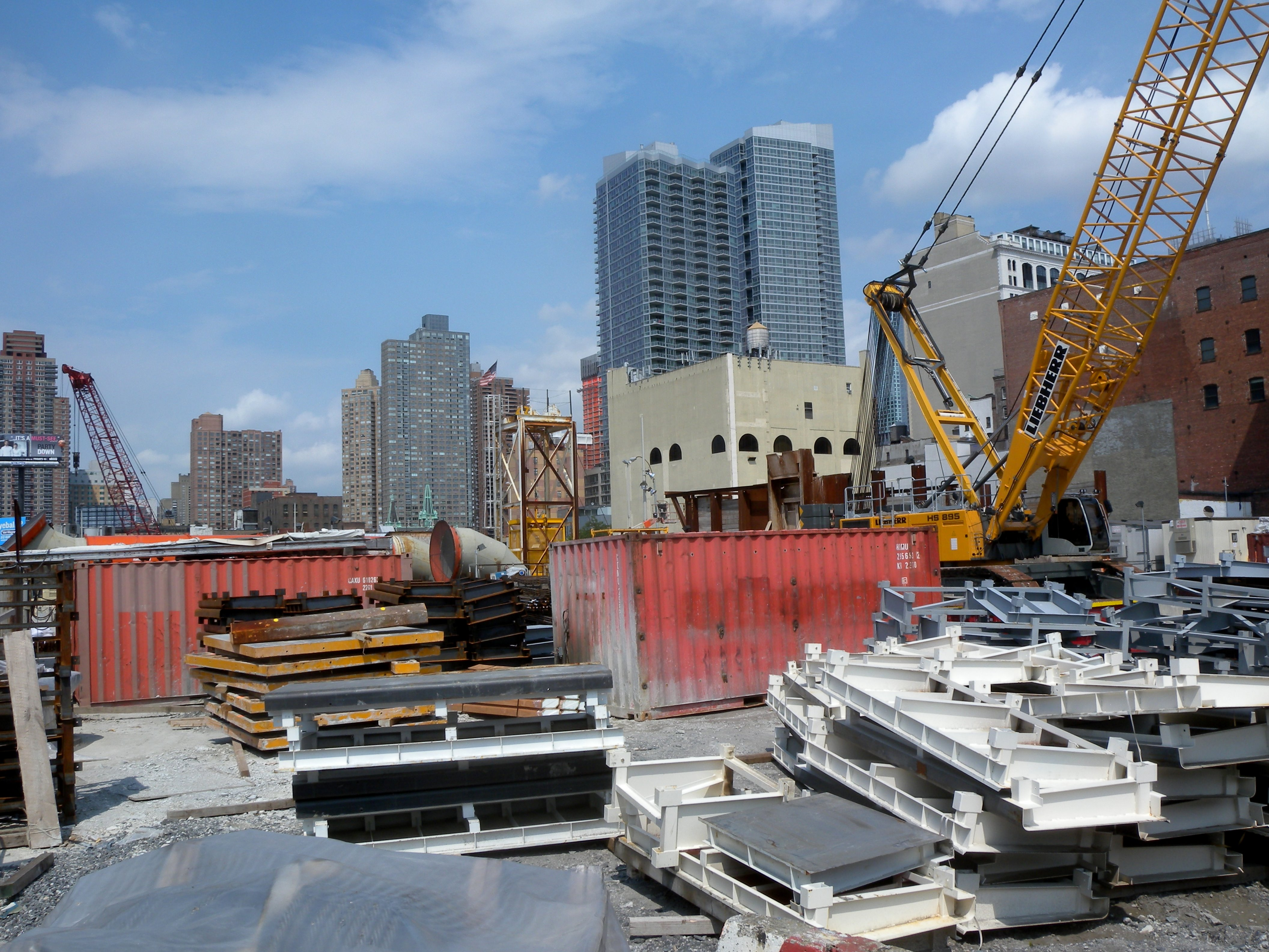 Looking northeast from 33d Street at Site P of the 7 Line Extension, 555 West 34th Street, on a sunny day.